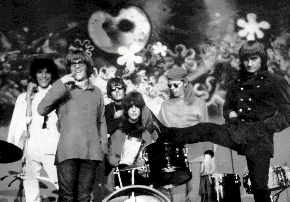 Publicity photo of the Jefferson Airplane. From left: Jorma Kaukonen, Paul Kantner, Spencer Dryden, Grace Slick, Jack Casady, Marty Balin.